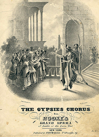 Title page of the "Gypsies' Chorus" from William Michael Rooke's (1794–1847) opera Amilie, or the Love Test' (1837)